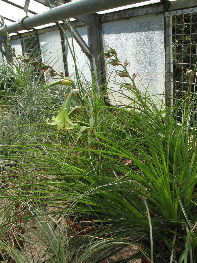 Puya mirabilis in cultivation at the Botanical Garden of Heidelberg, Germany.